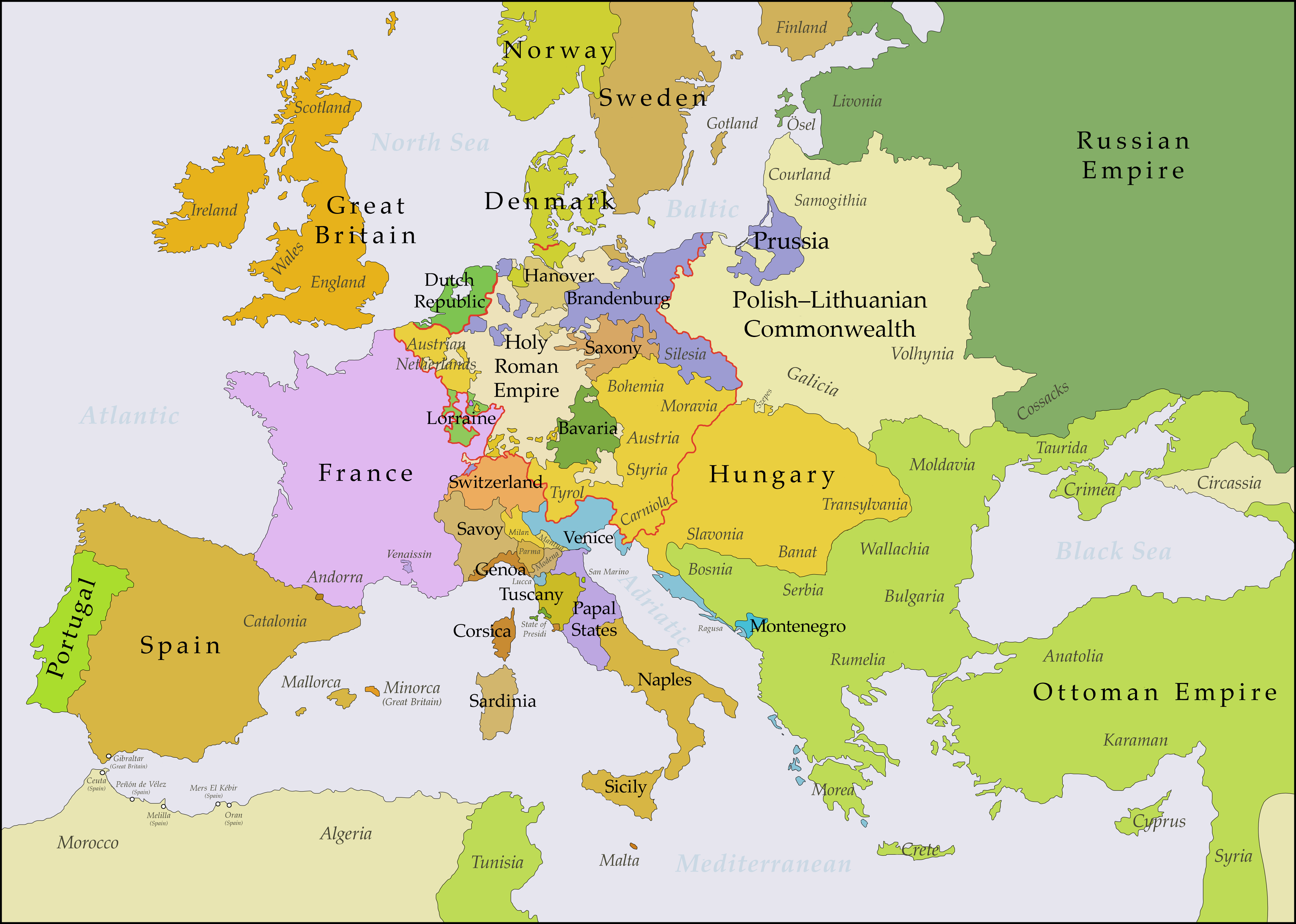 This map shows Europe in the years after the Treaty of Aix-la-Chapelle 1748 and the Seven Years' War (1756-1763). Europe did not see another major geographical change until 1766. The red line marks the borders of the Holy Roman Empire. The work was created with Inkscape and is mainly based on a map in: Putzger - Historischer Weltatlas, Berlin 1990, 78 pp.